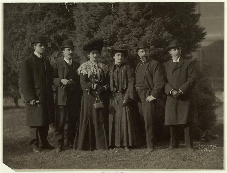 Four men and two women posing for an outdoors photo.